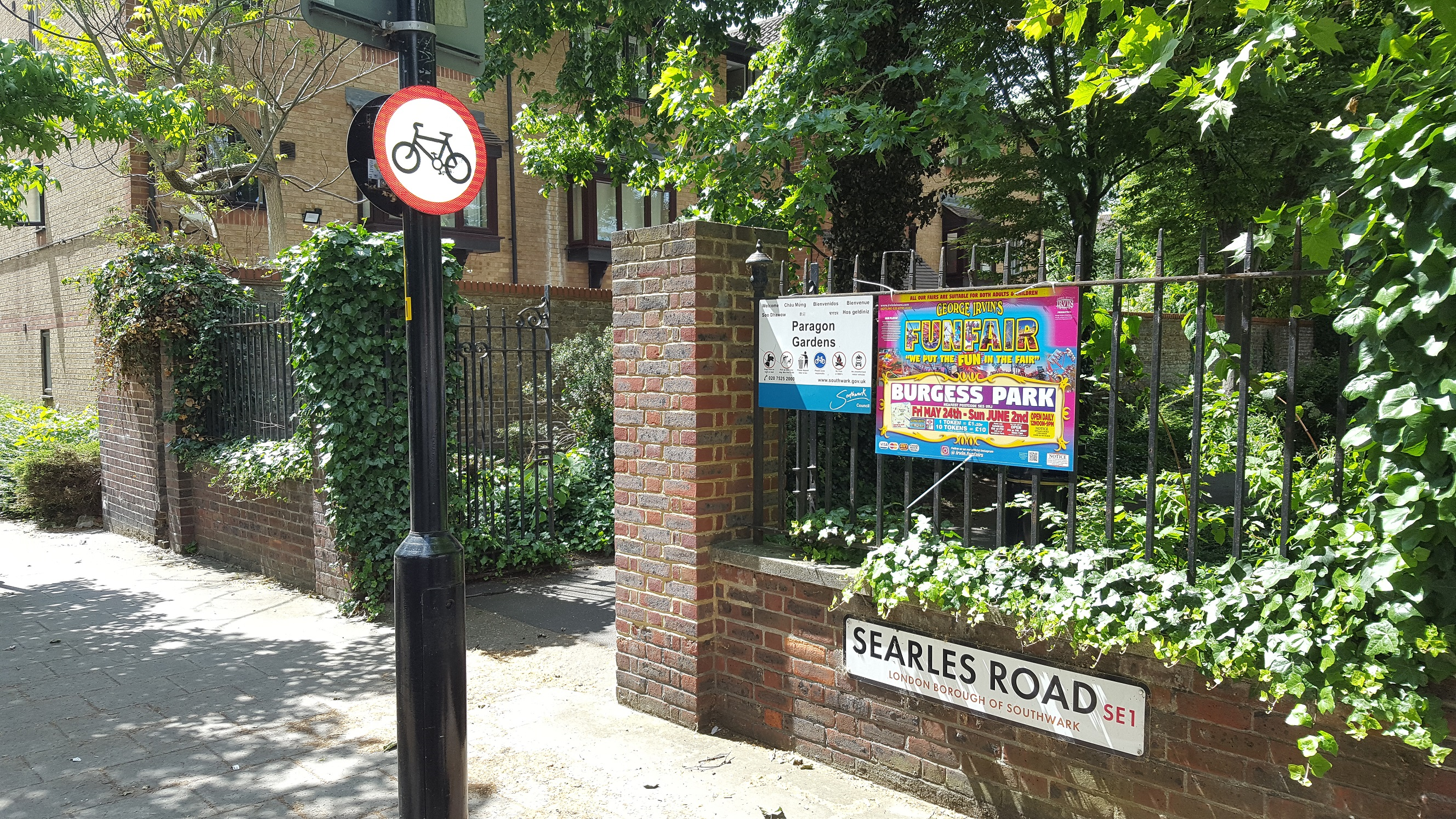 this street is close to the onetime home and office of architect Michael Searles at (now) 155 Old Kent Road. He was the surveyor to the Rolls Estate, and a pioneer of semi-detached housing.